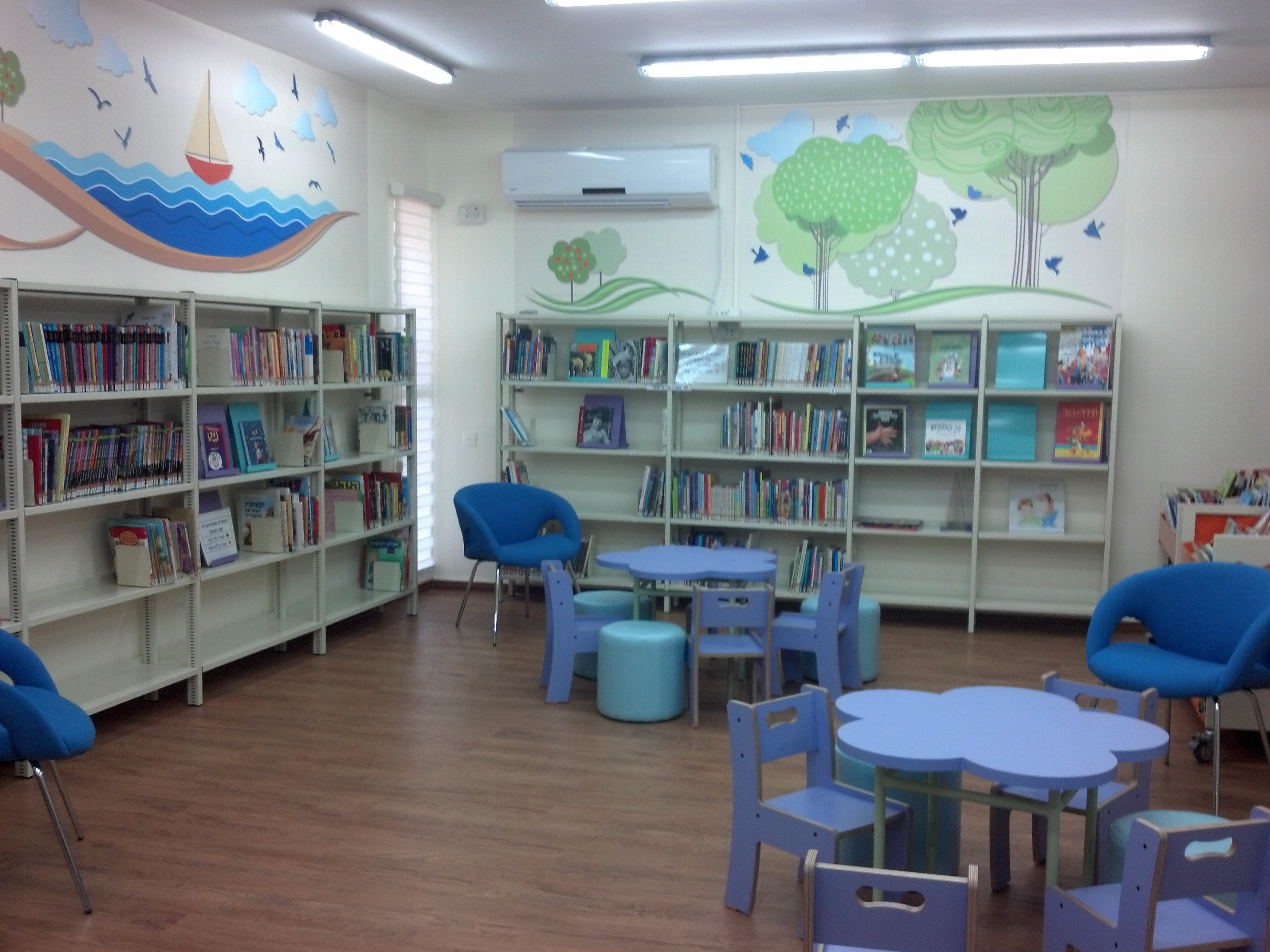 The childrens library of Matte Asher